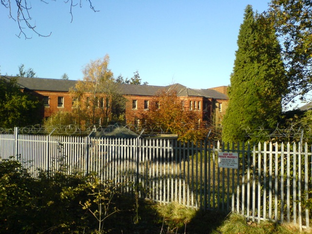 Cane Hill Mental Asylum